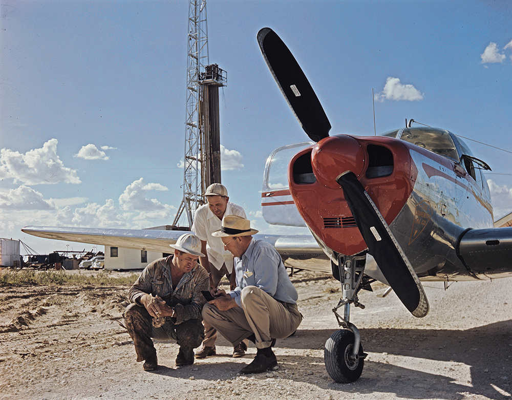 Title: [Superior Oil Co. aircraft, Beech Bonanza] Creator: Robert Yarnall Richie Date: July - August 1949 Place: Lake Creek Field, Montgomery County, Texas or Midland, Texas ? Part Of: Robert Yarnall Richie Photograph Collection Physical Description: 1 transparency: film, color; 10.0 x. 12.6 cm. File: ag1982_0234_3166_087a_E_superioroil_sm_opt.jpg Rights: Please cite Southern Methodist University, Central University Libraries, DeGolyer Library when using this image file. A high-quality version of this file may be obtained for a fee by contacting . For more information, see: View the Robert Yarnall Richie Photograph Collection